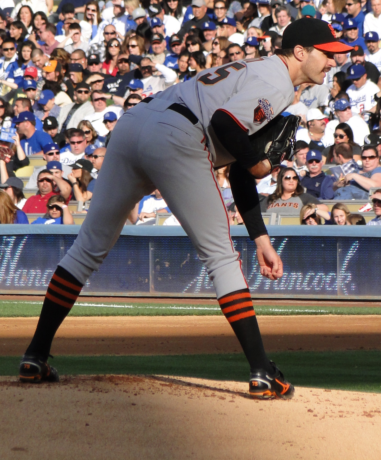 Barry Zito pitching at Dodger Stadium.